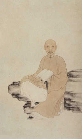 Fu Shan